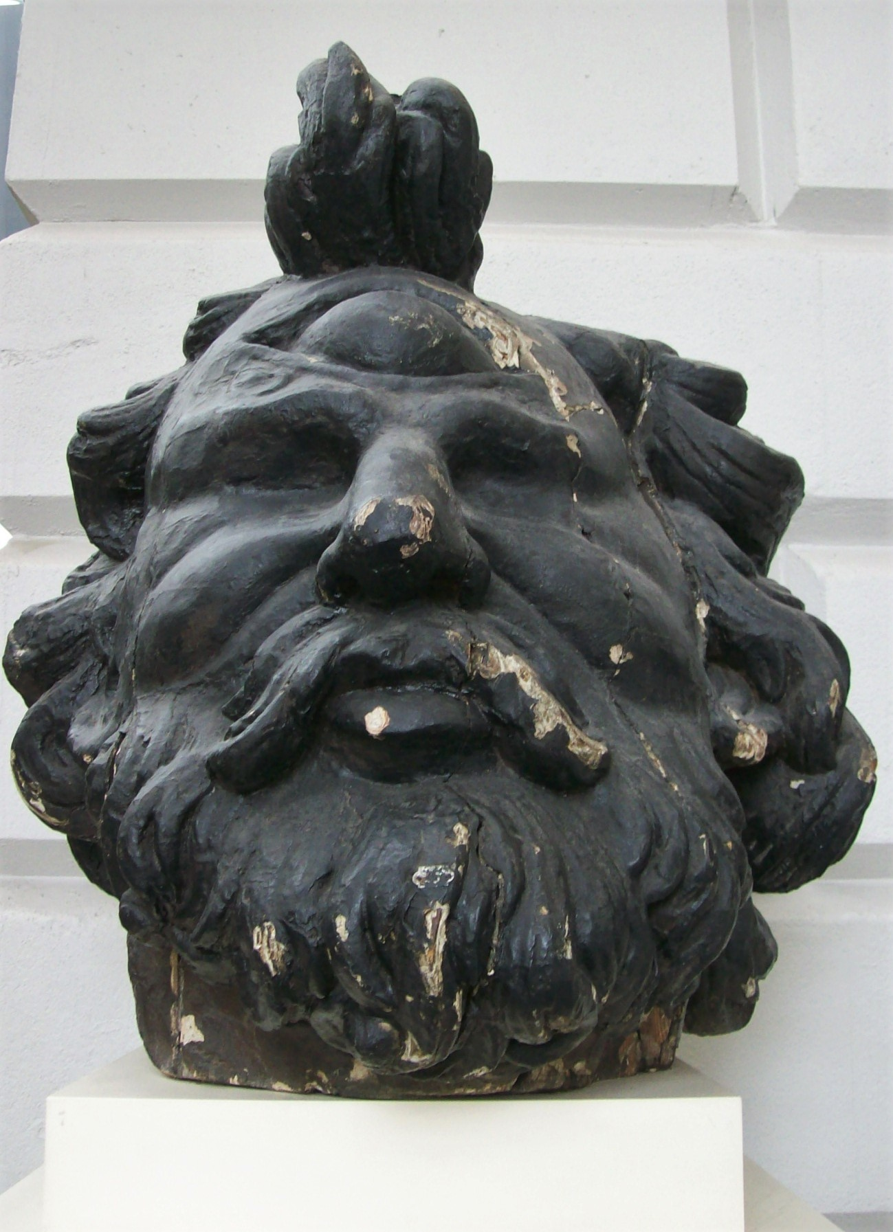 Figurehead, Polyphemus, National Maritime Museum, Greenwich